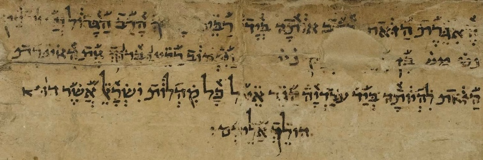 Cairo Geniza - Obadiah the Proselyte, Document XVI - letter of Barukh ben Isaac of Aleppo (Bodleian Library, MS. Heb. a. 3, fol. 1a) text